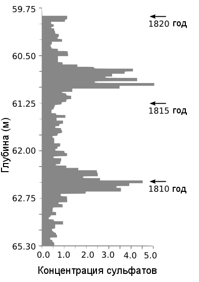 Sulfate concentration in ice core from Central Greenland, accurately dated by counting oxygen isotope seasonal variations. The year 1815 AD was due to the Mt. Tambora eruption, while prior to that is an unknown eruption.